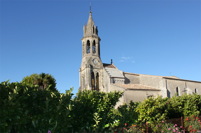 Church of Saint Romain La Virvée